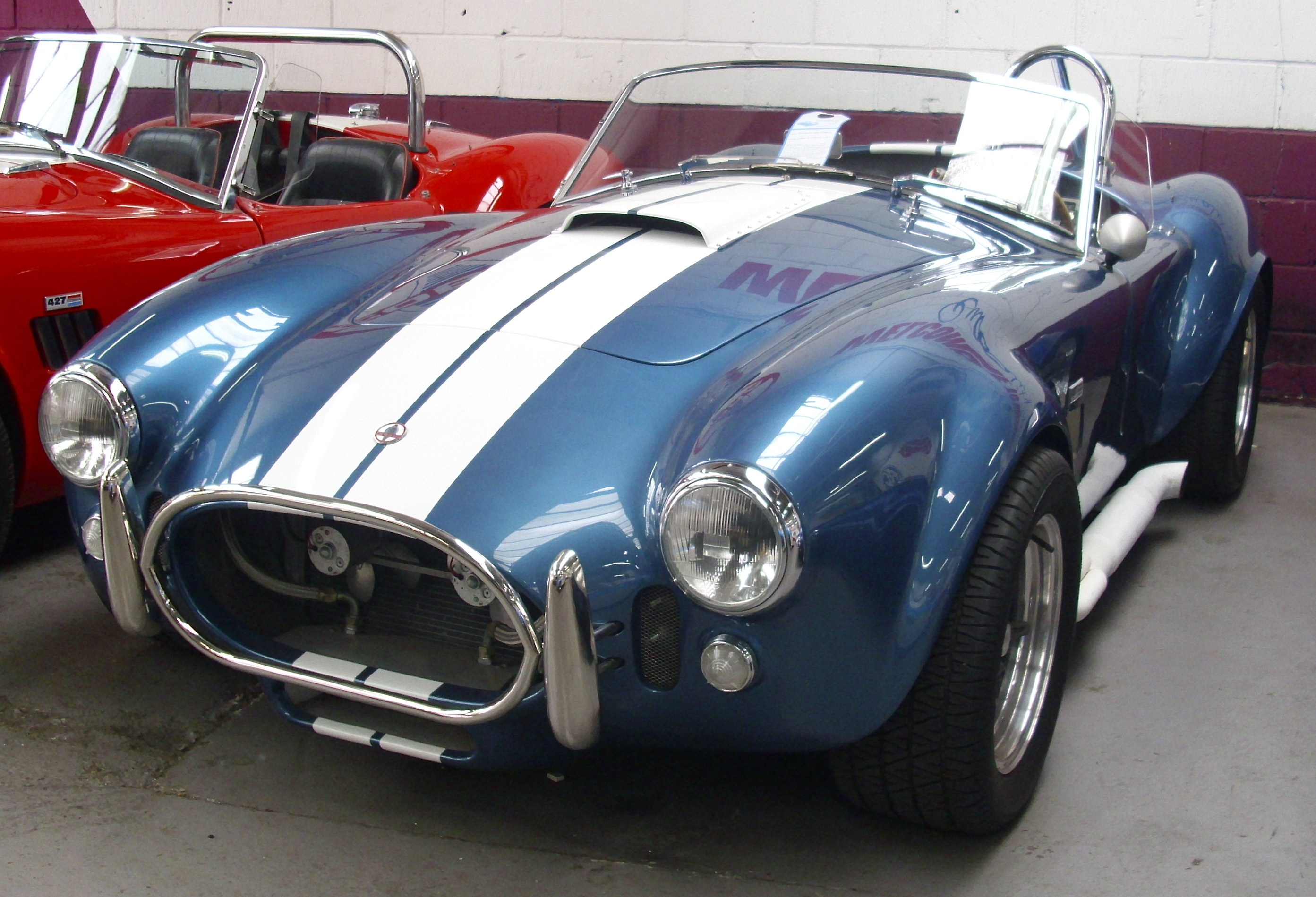 Contemporary Classics Cobra